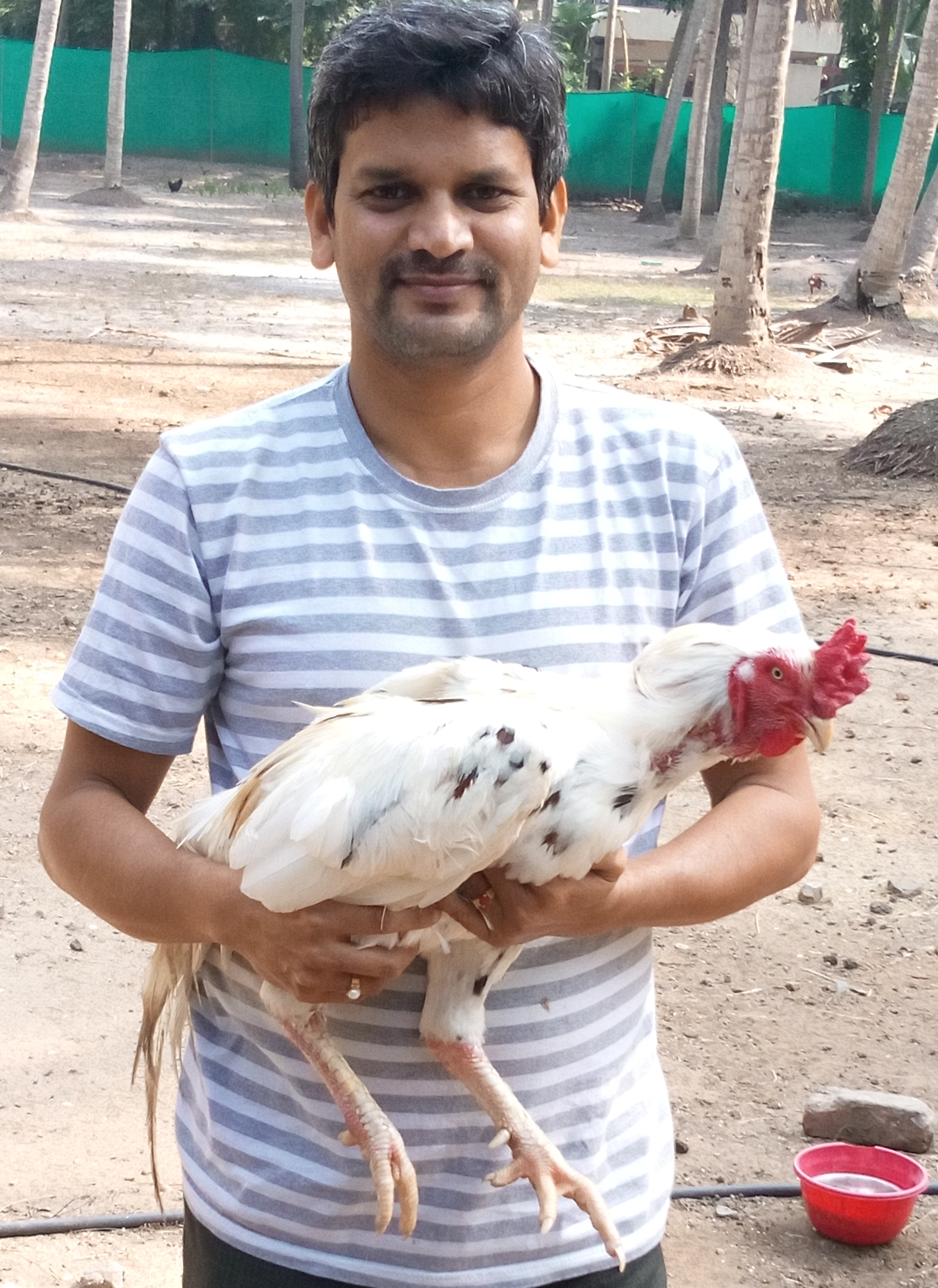 పింగళ అని పిలిచే పందెం కోడి